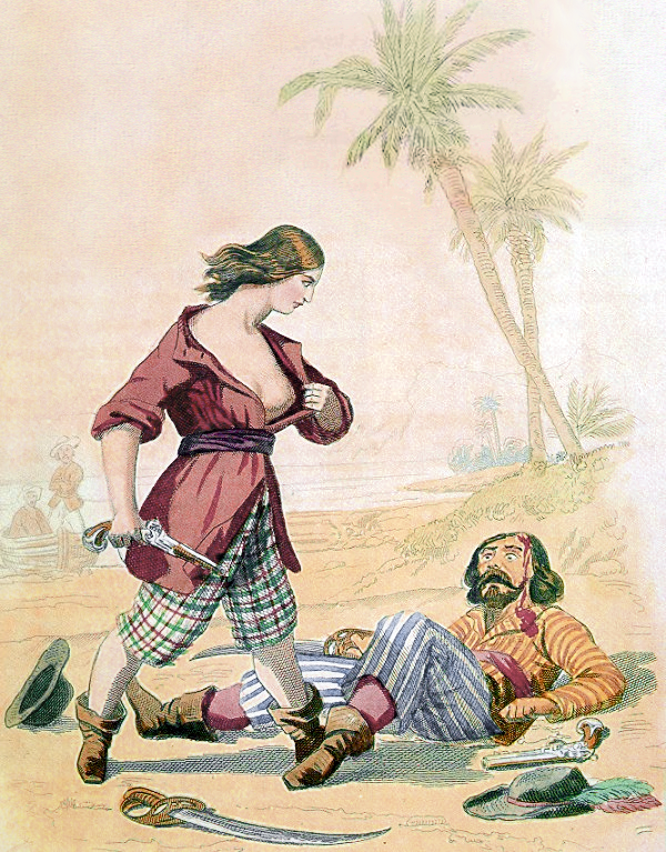 Famous Pirate Mary Read